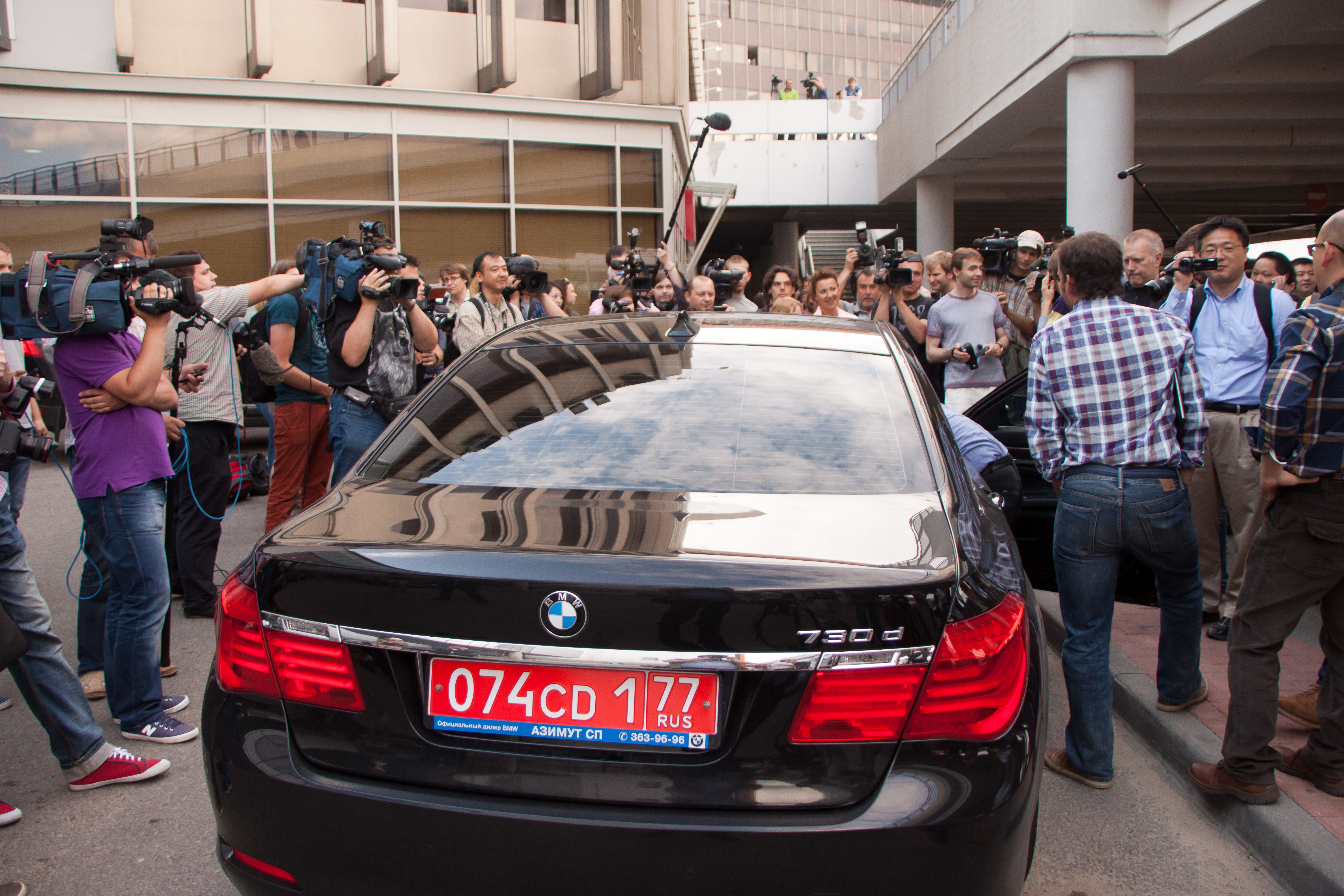 Ecuador embassy car in front of Sheremetyevo Airport in Moscow on June 23, 2013 around the arrival of Edward Snowden.